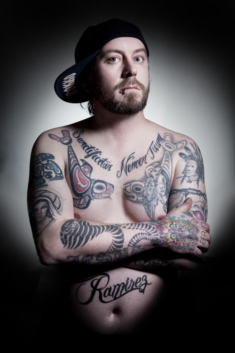 Rokko Ramirez - Public Figure and Artist from Austria